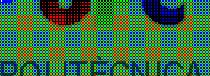 zoom of the bayer image